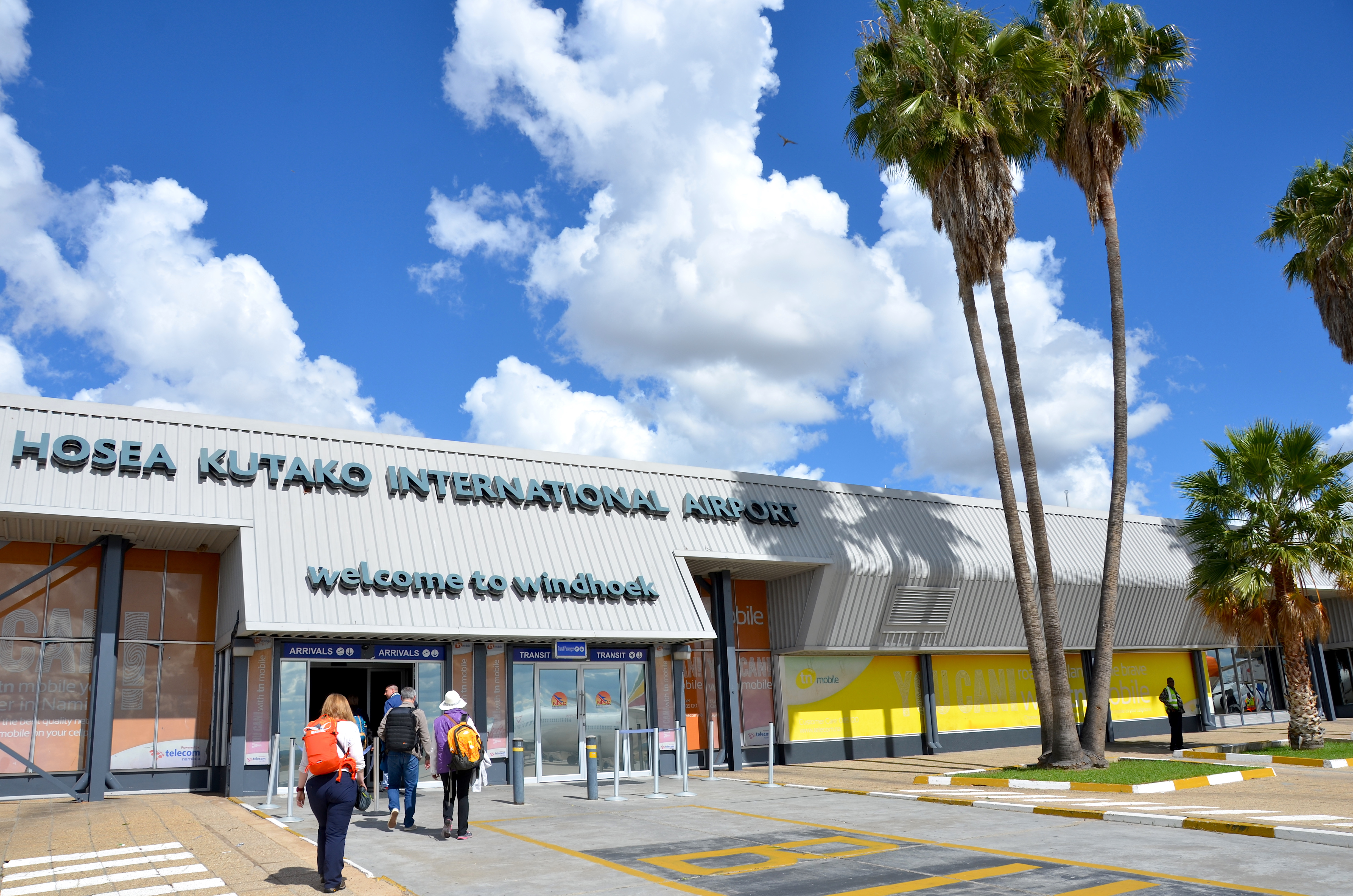 Hosea Kutako International Airport in Namibia (2017)